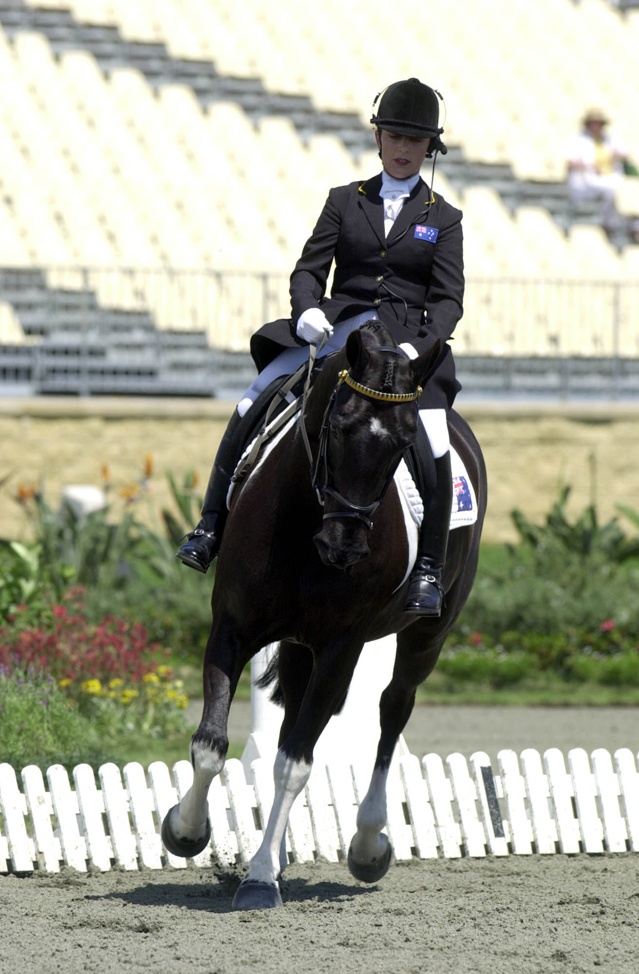 Action shot of Australian equestrian Julie Higgins during 2000 Sydney Paralympic Games Individual dressage Grade 3 event – for which she won gold